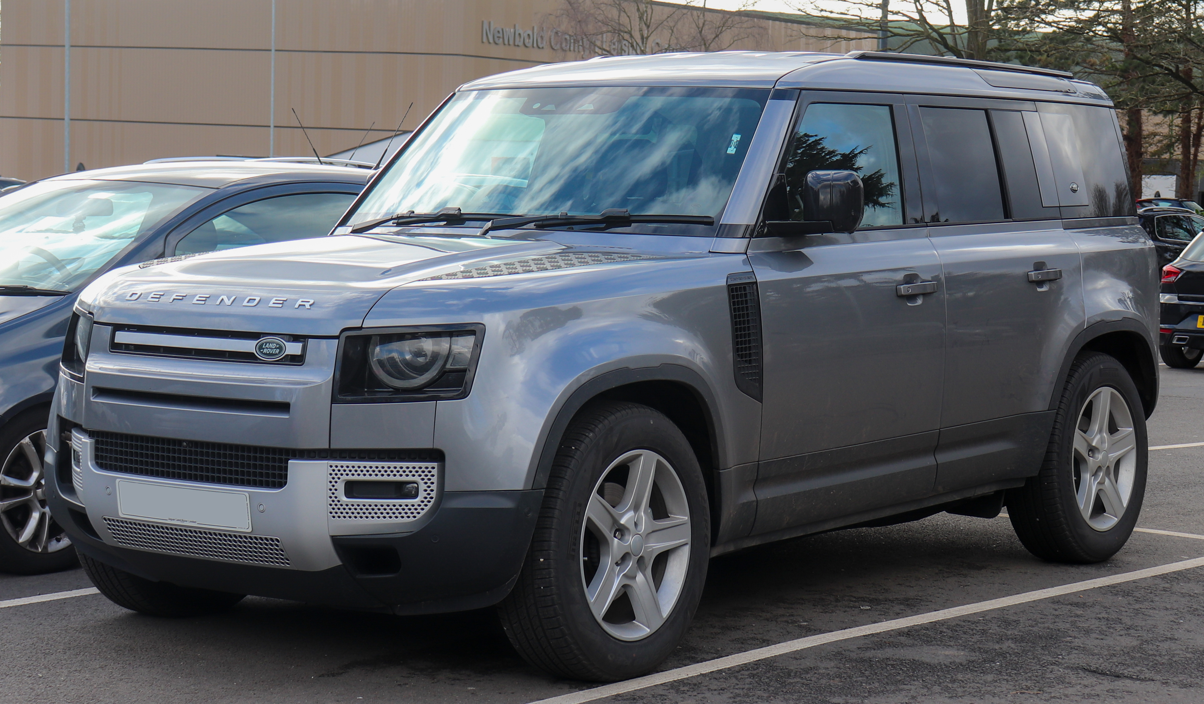 2020 Land Rover Defender SE D240 Automatic 2.0 Front Taken in Leamington Spa